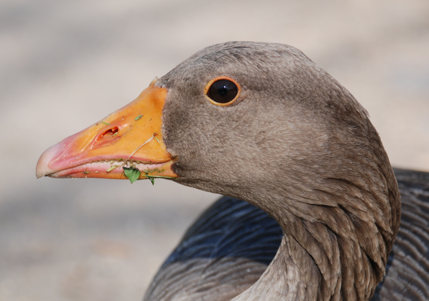 A Greylag Goose (Anser anser) mugshot